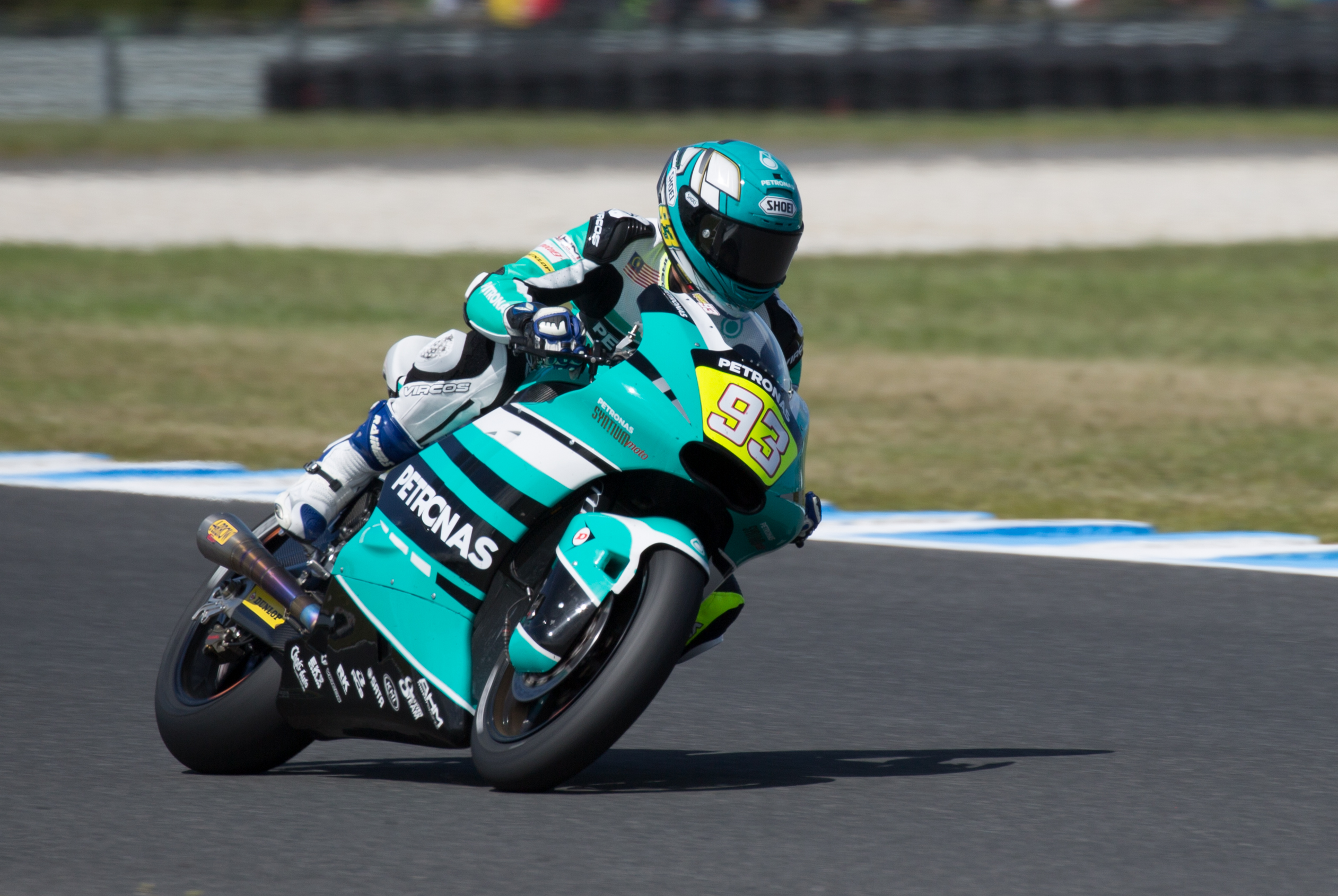 2016 Australian motorcycle Grand Prix – Moto2 – #93 Ramdan Rosli – Kalex – Petronas AHM Malaysia